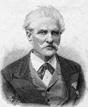 Hungarian composer and conductor Joseph Gungl (1810-1889)